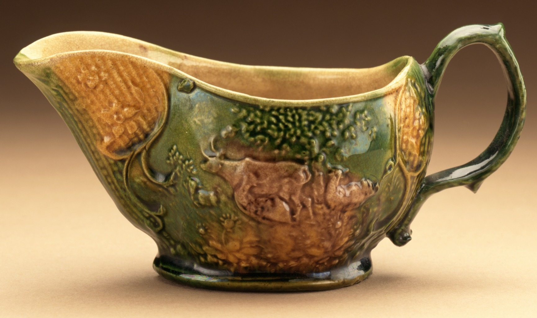 England, Staffordshire, Fenton, circa 1765 Furnishings; Serviceware Earthenware with lead glaze Gift of Dr. and Mrs. Denny B. Lotwin (M.82.206.5) Decorative Arts and Design Currently on public view: Hammer Building, floor 3